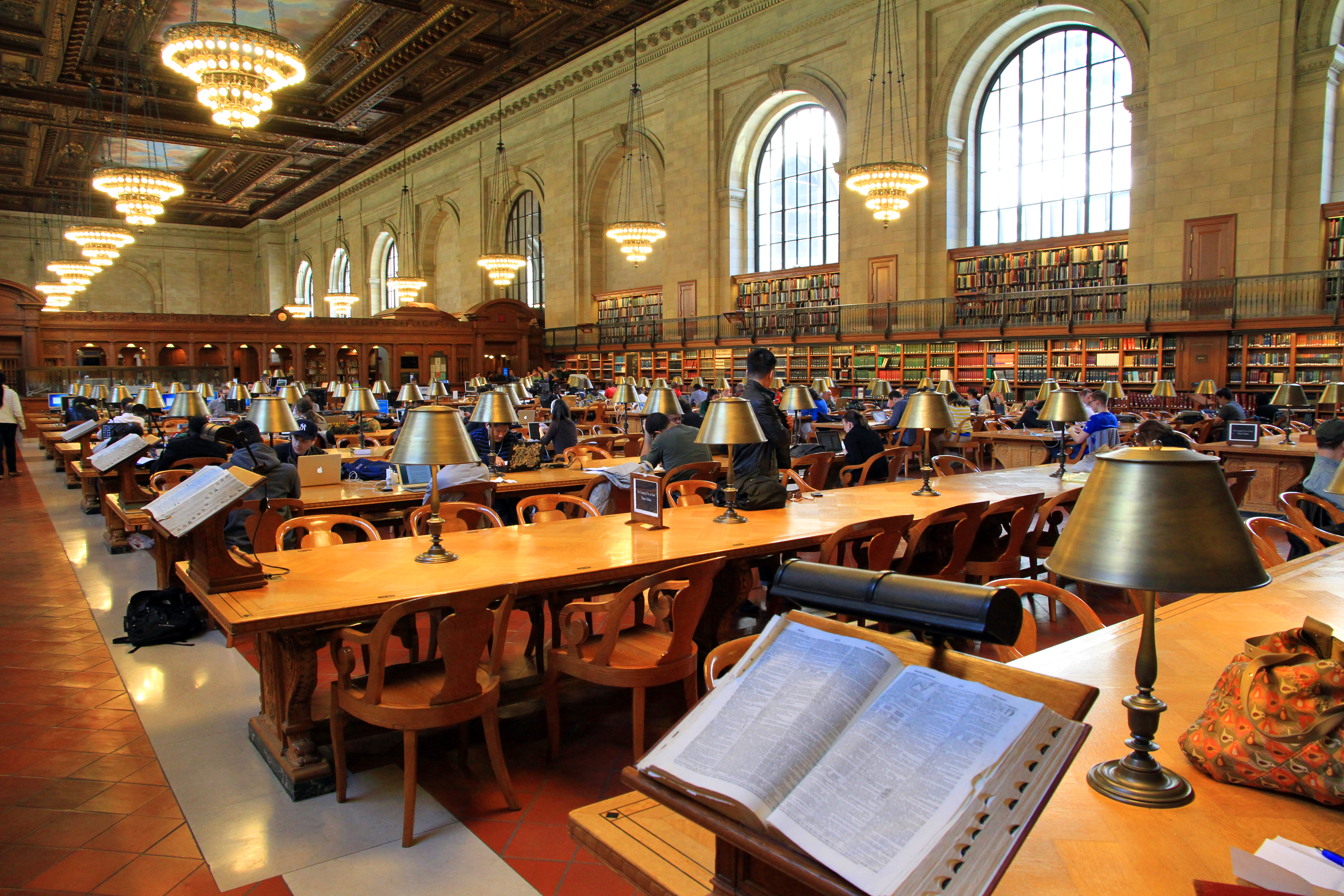 New York Public Library, 2013